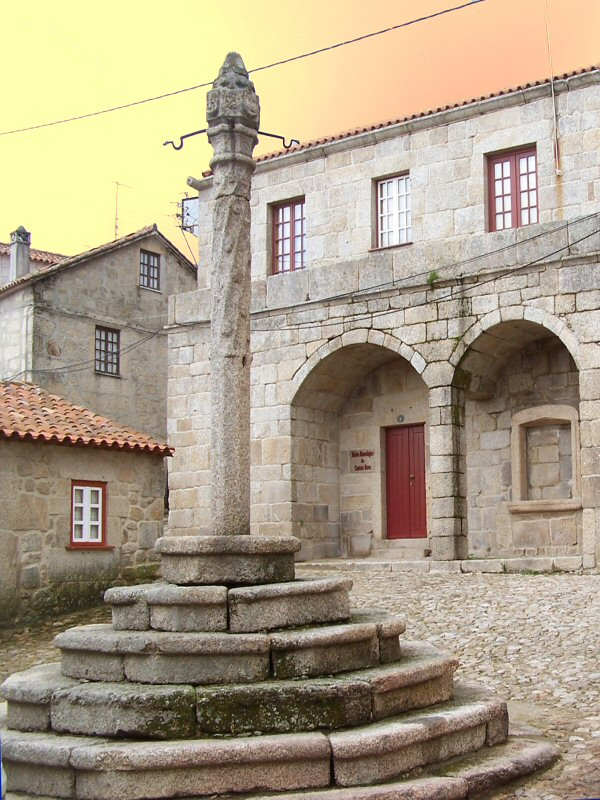 Is the village of Castelo Novo (New Castle).Portugal Link (PT): user:sacavem (pt) (usuário:sacavem) Link (PT)